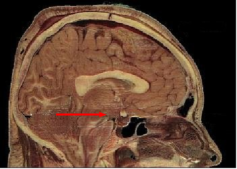 Edited public domain picture taken from wikimedia:LocationOfHypothalamus.jpg. Removed some of the clutter and added a red arrow. Picture edited by Jim Thomas using The Gimp, Feb 10, 2006.